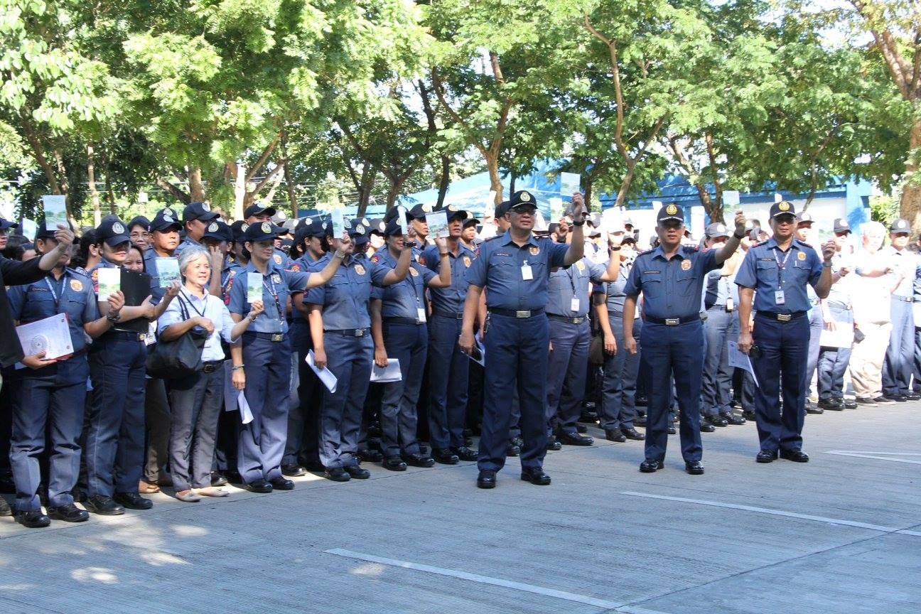 NCRPO ADAPTS THE WAY TO HAPPINESS TRAINS MORE POLICE ON DRUG ABUSE RESISTANCE EDUCATION